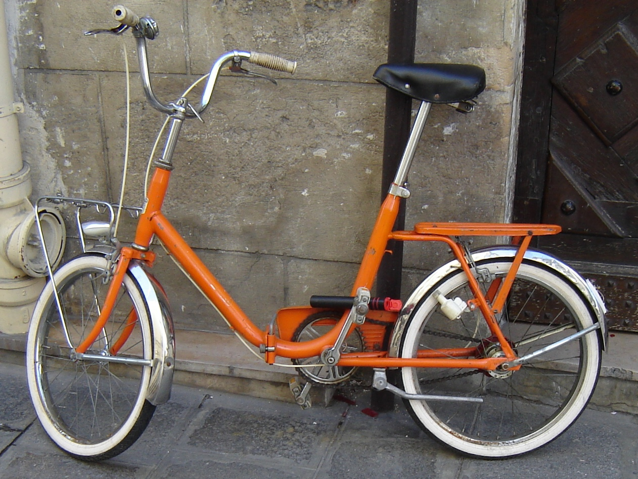 Folding bicycle, Paris